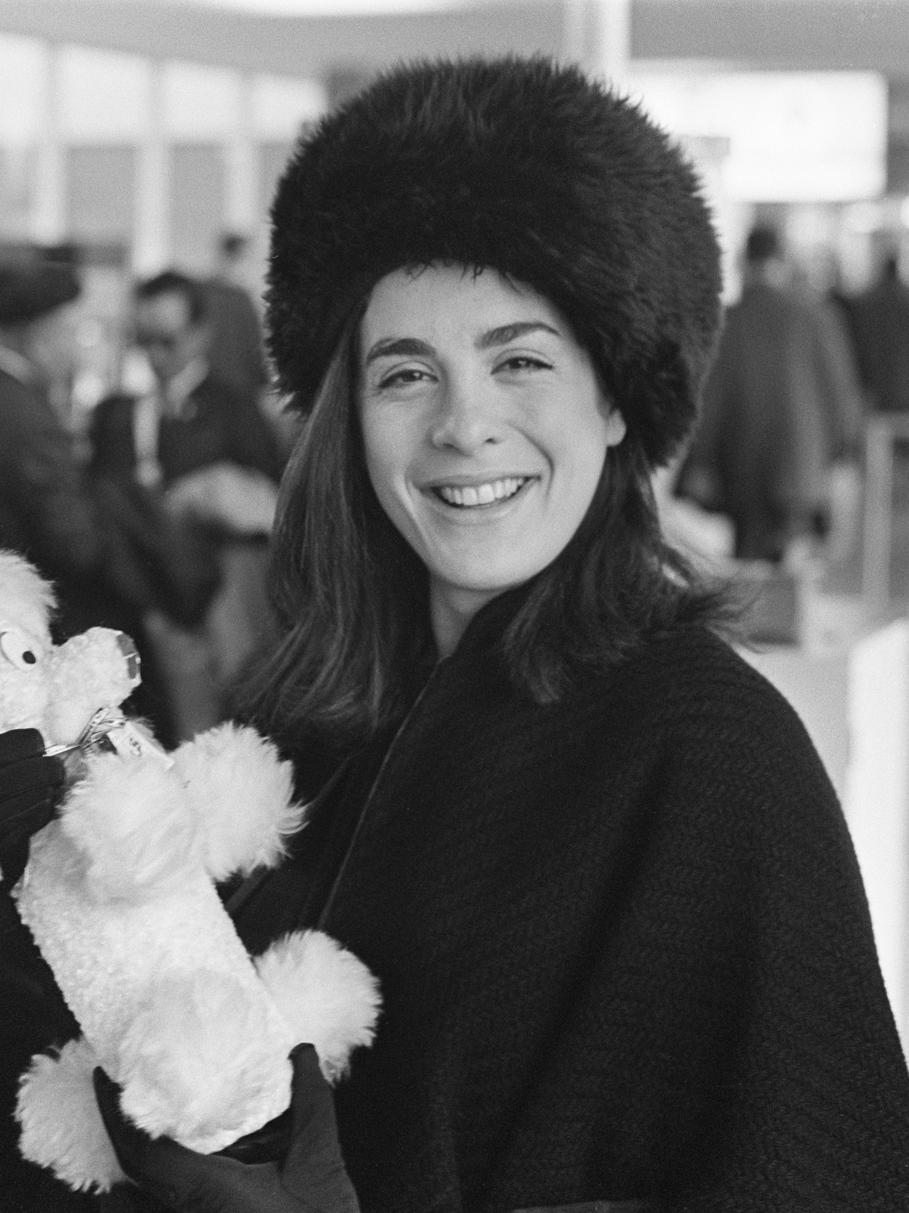 Arrival at Amsterdam Airport Schiphol. Actress Eleanor Bron, smiling at the camera, wearing a black fur hat and knitted shawl and holding a stuffed toy resembling a stylized poodle.